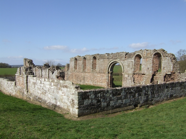 Whiteladies Priory, near to Shackerley, Shropshire, Great Britain. Whiteladies Priory was an Augustinian nunnery founded in the twelfth century. Following dissolution it was owned by a number of Roman Catholic families. King Charles II was hidden here during his flight after the battle of Worcester. Whiteladies and nearby Boscobel House are on the Monarch's way long distance footpath.